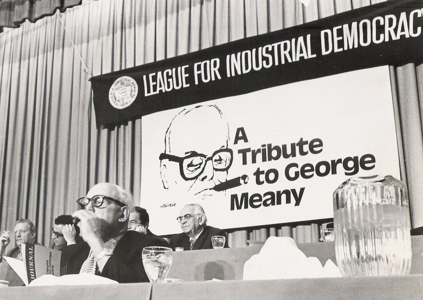 A cropped version of a photo showing George Meany (front and center), at a symposium in Meany's honor given by the League for Industrial Democracy (LID). A caricature of Meany, with his signature glasses and cigar, appears on the LID banner behind the podium.